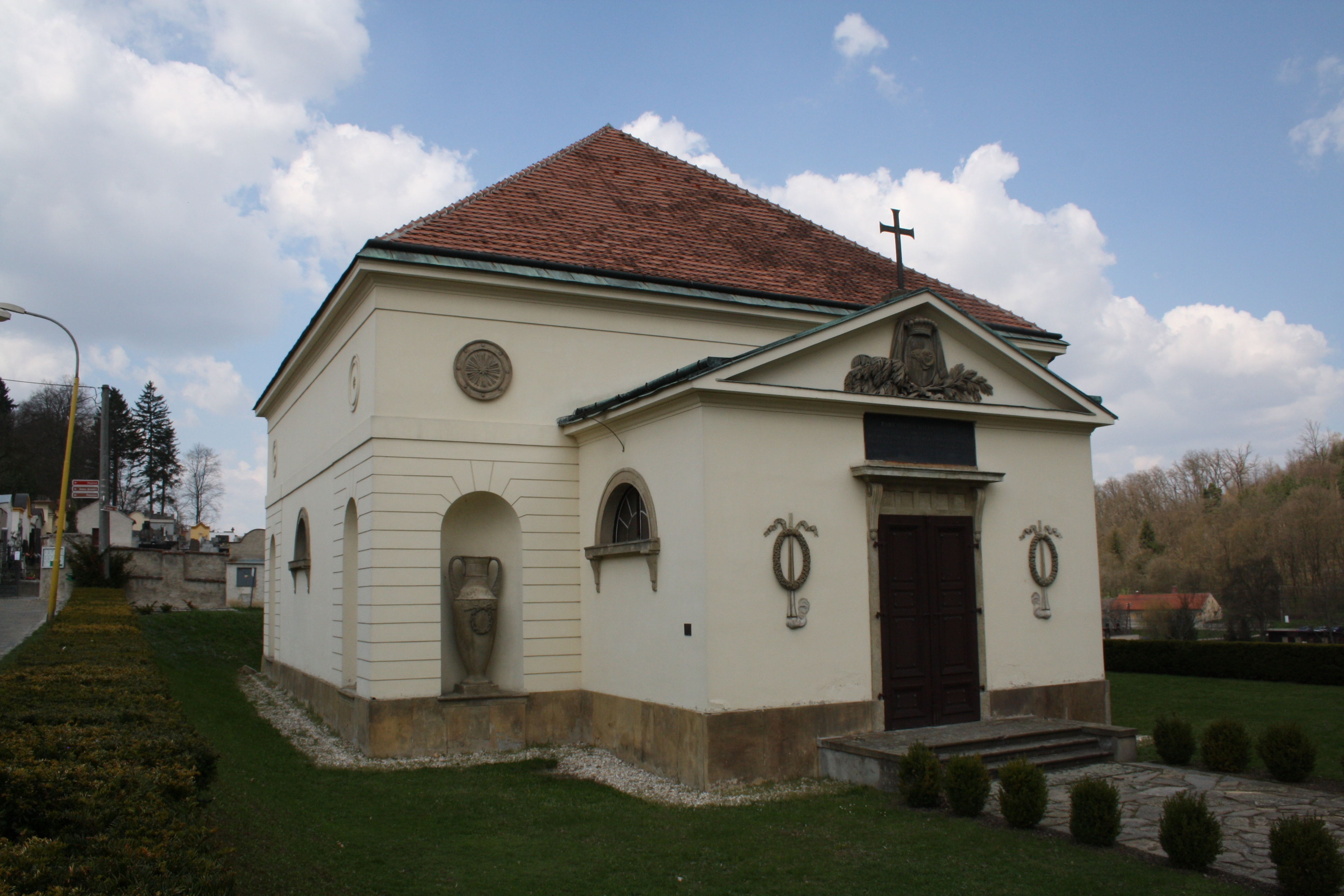 Haugwitz crypt in Náměšť nad Oslavou.